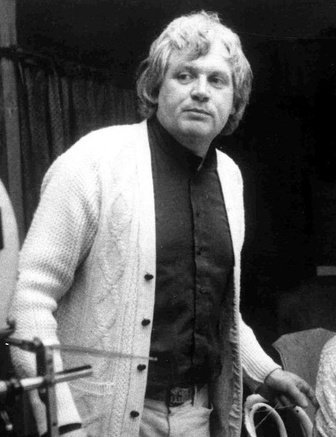 Ken Russell on set of The Boy Friend, 1971.